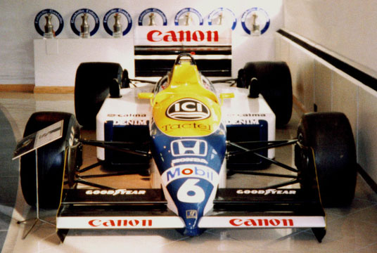 Cropped version of Image:Williams F1 FW11.jpg, some editing done to remove distracting background objects.